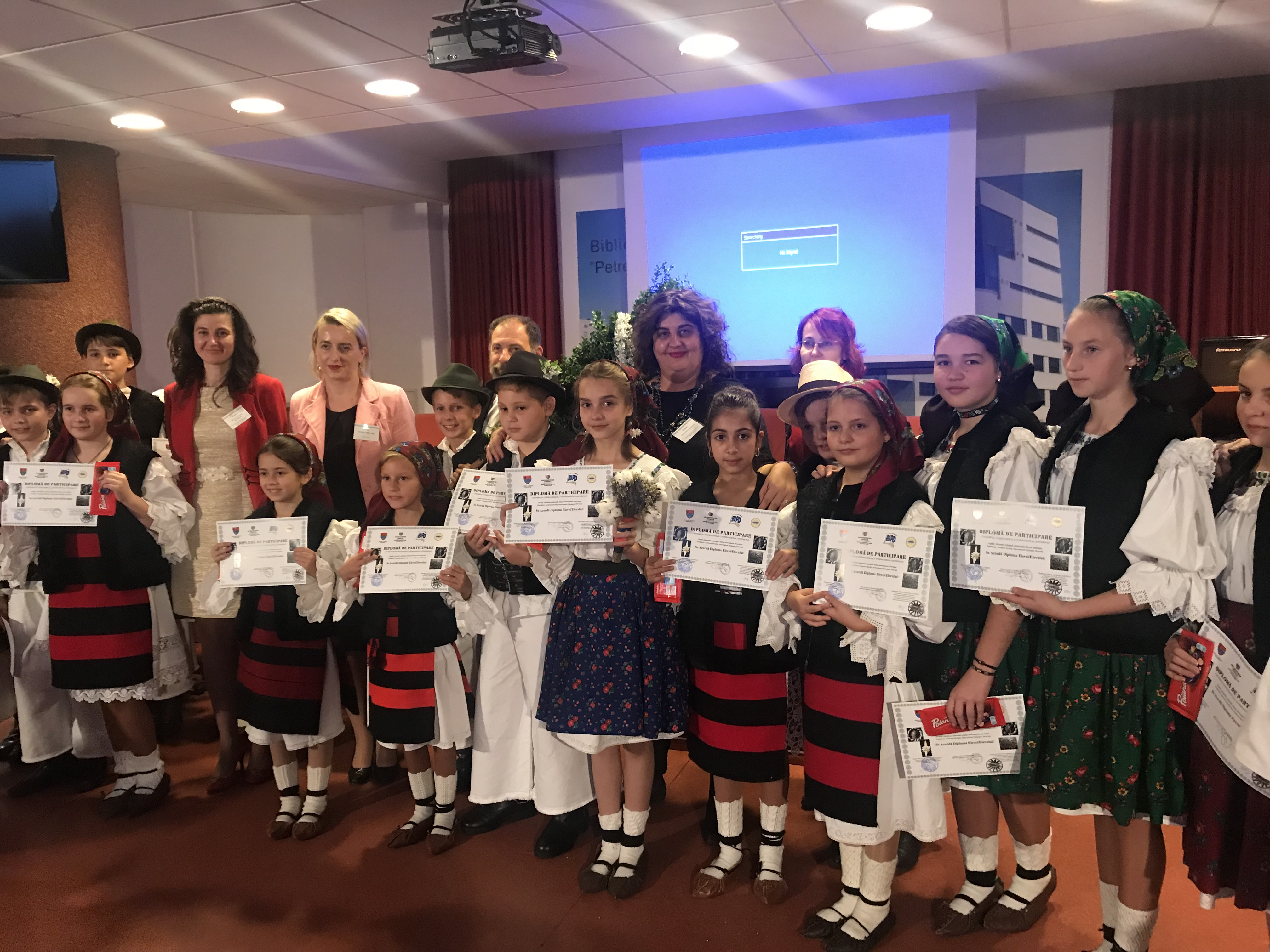 Generații în folclor, 2017, Baia-Mare